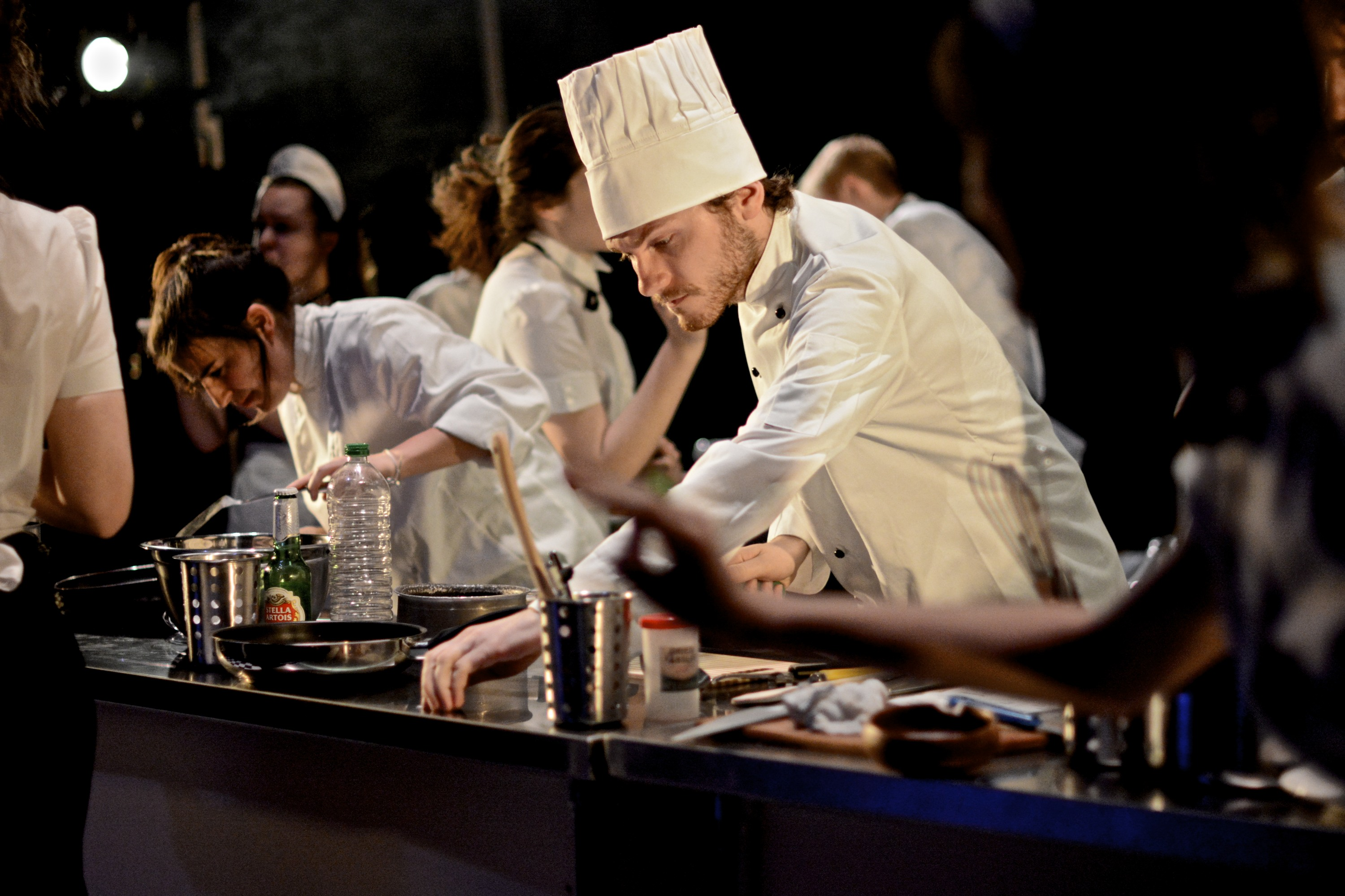 Fourth Monkey Theatre Company's "The Kitchen" (by Arnold Wesker). Photograph by Anthony Hollis. To be used on the Fourth_Monkey_Theatre_Company page